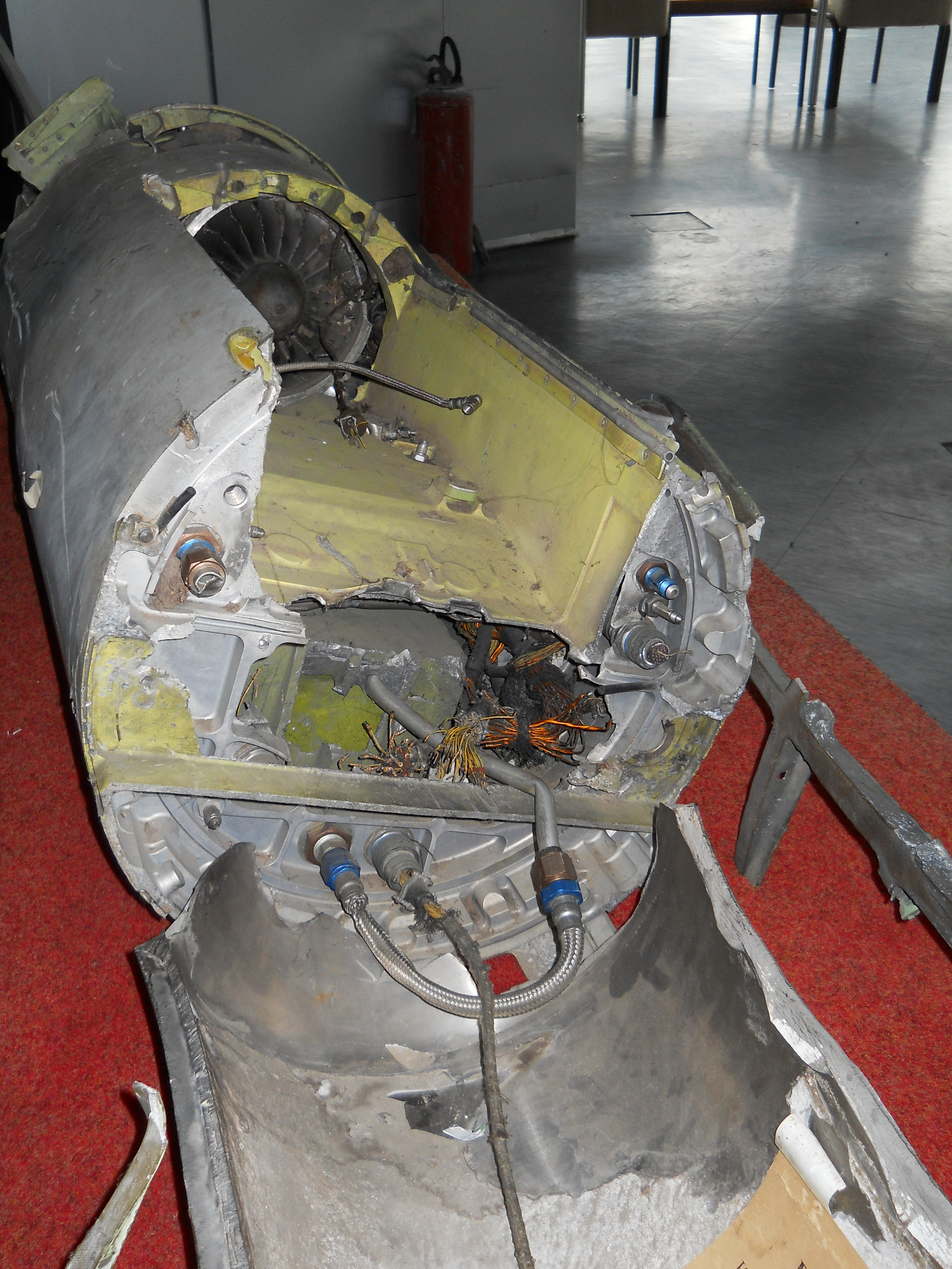 Belgrade, Serbia: Nikola Tesla aeronautical museum - downed Tomahawk cruise missile.